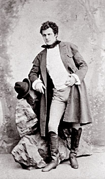 Russian opera singer Mikhail Medvedev (1852-1925)